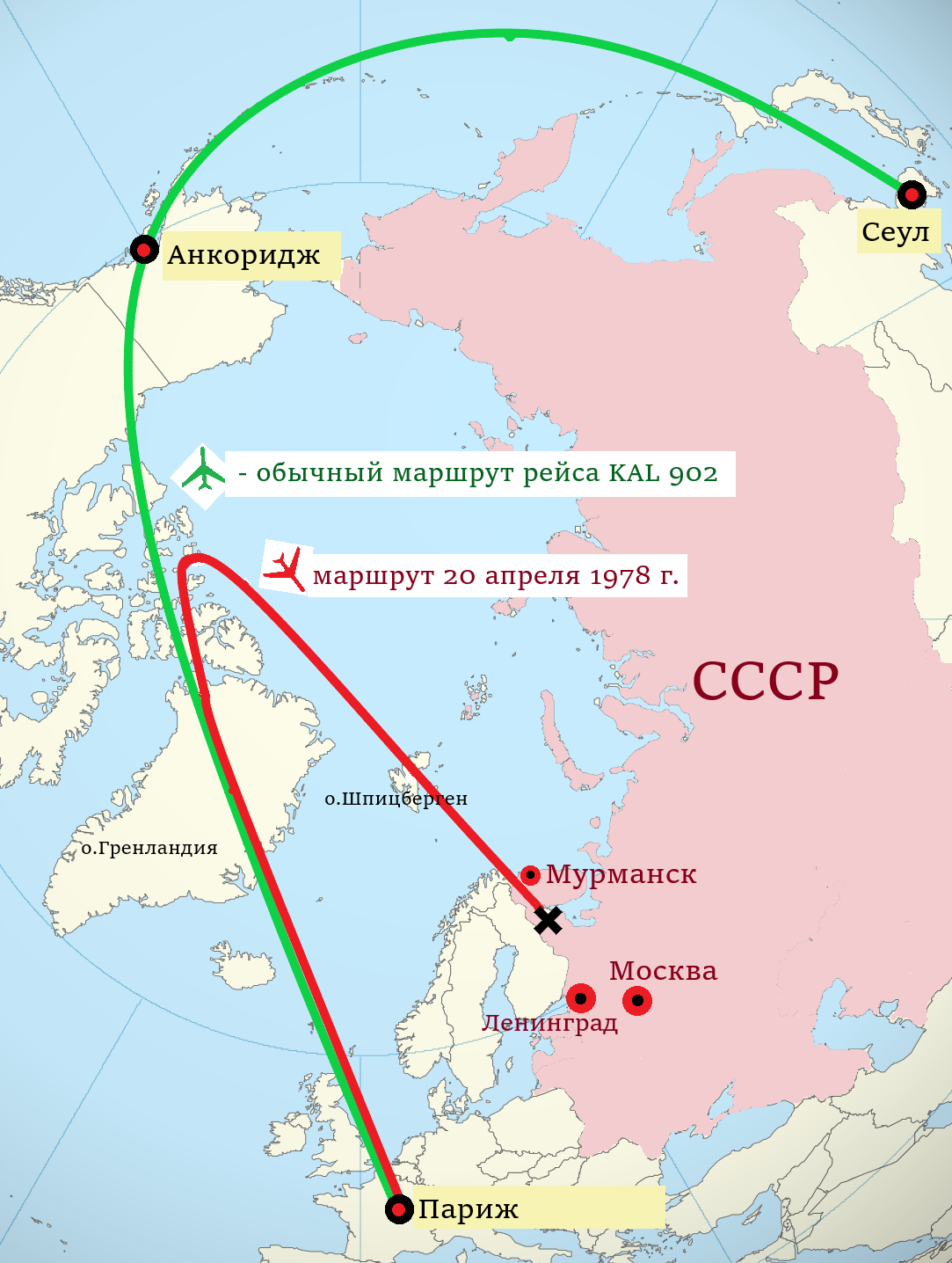 Korean Airlines Flight 902 flight path (1978).